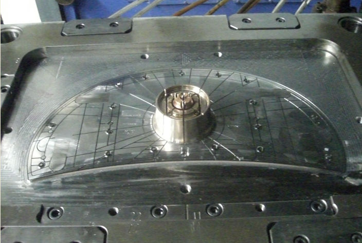 Beryllium-copper insert on injection molding mold for ABS resin